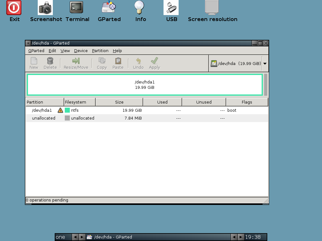 GParted (0.3.7 beta) Live CD, downloaded form